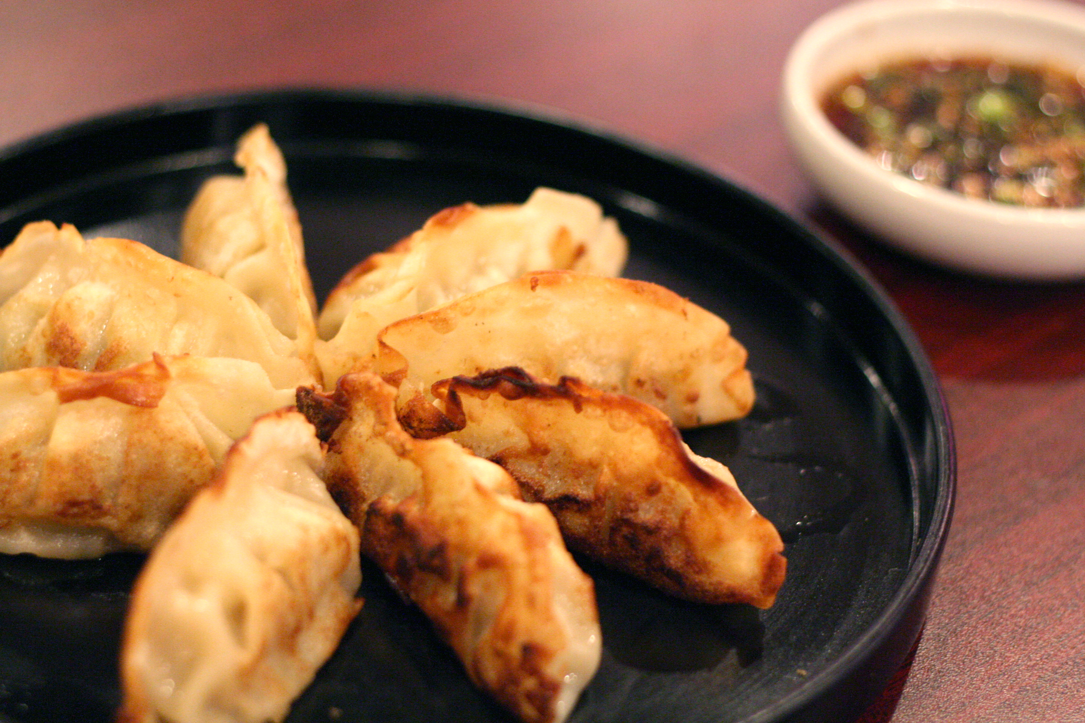 Gunmandu, a Korean fried dumpling